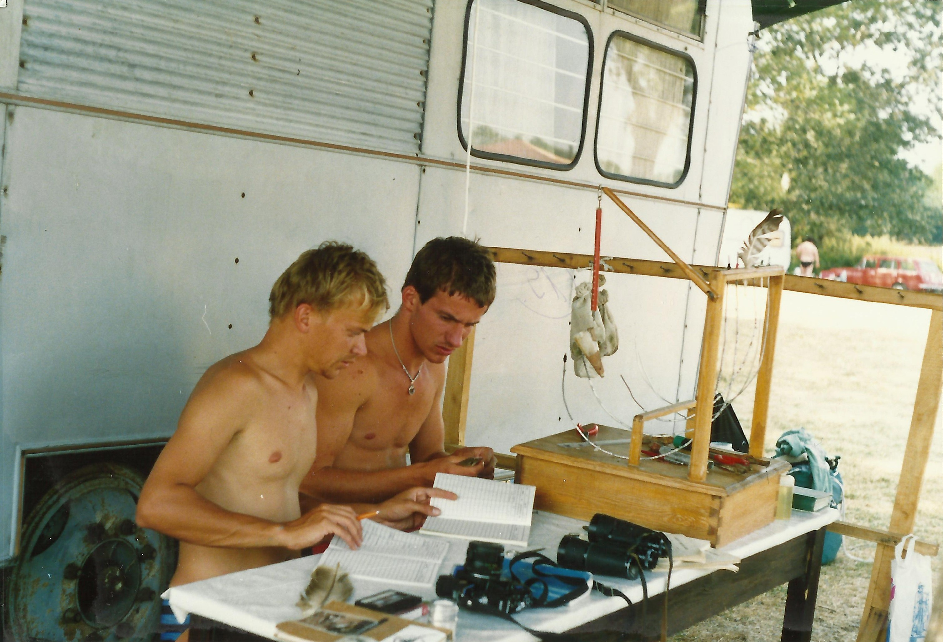 Gyűrűzőmunka a fenékpusztai gyűrűzőtáborban (a dátum hozzávetőleges)